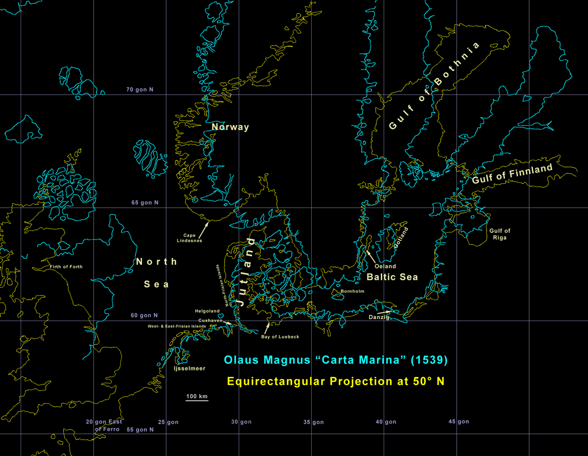 "Carta Marina" of Olaus Magnus in relation to modern map.